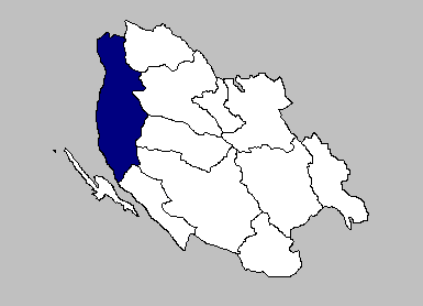 Self-made map of the Senj municipality within the Lika-Senj County.